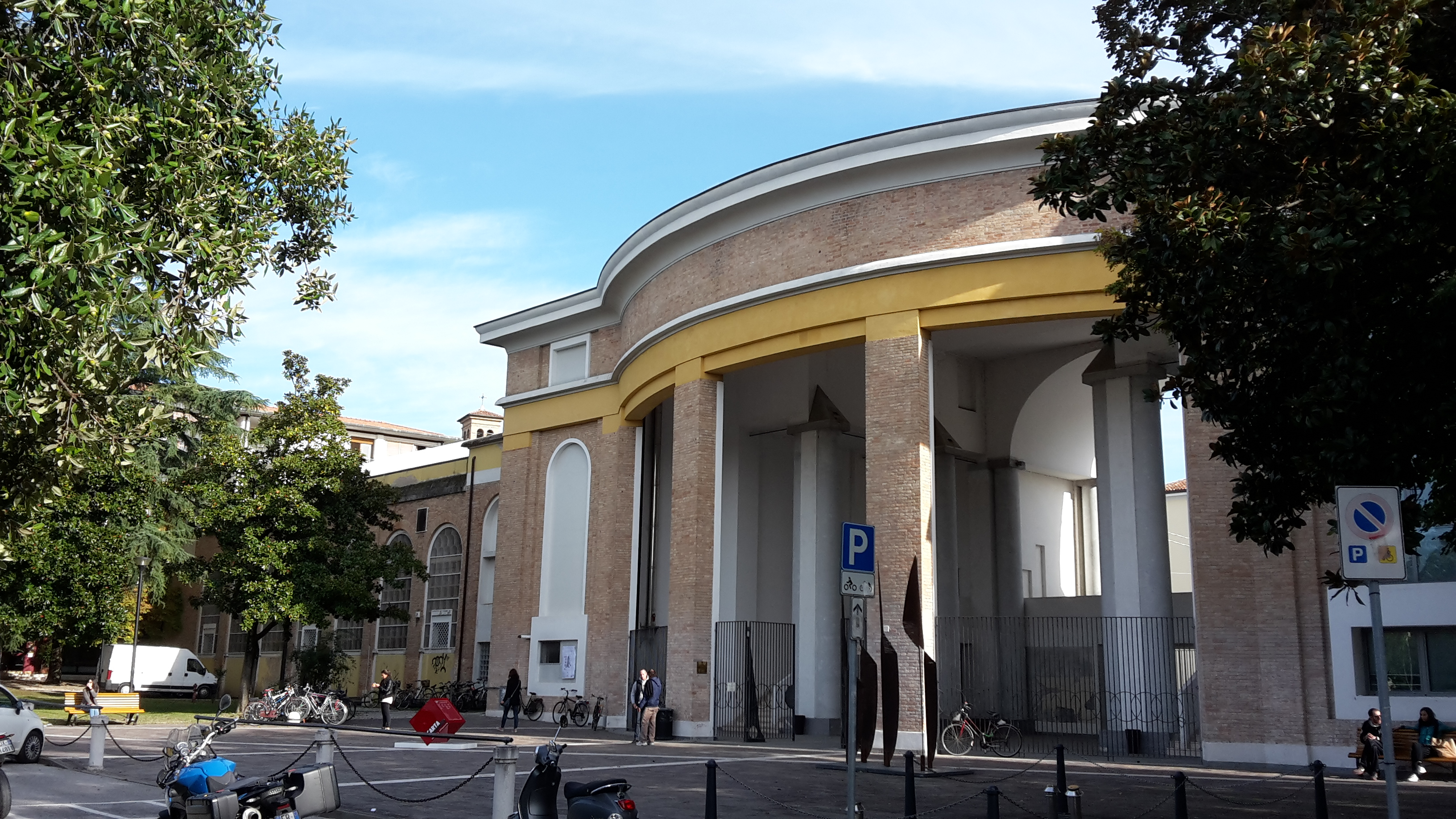 View of the building "ex GIL", built in the 1930s as "Casa del Balilla"; today it hosts the new civic library of Treviso